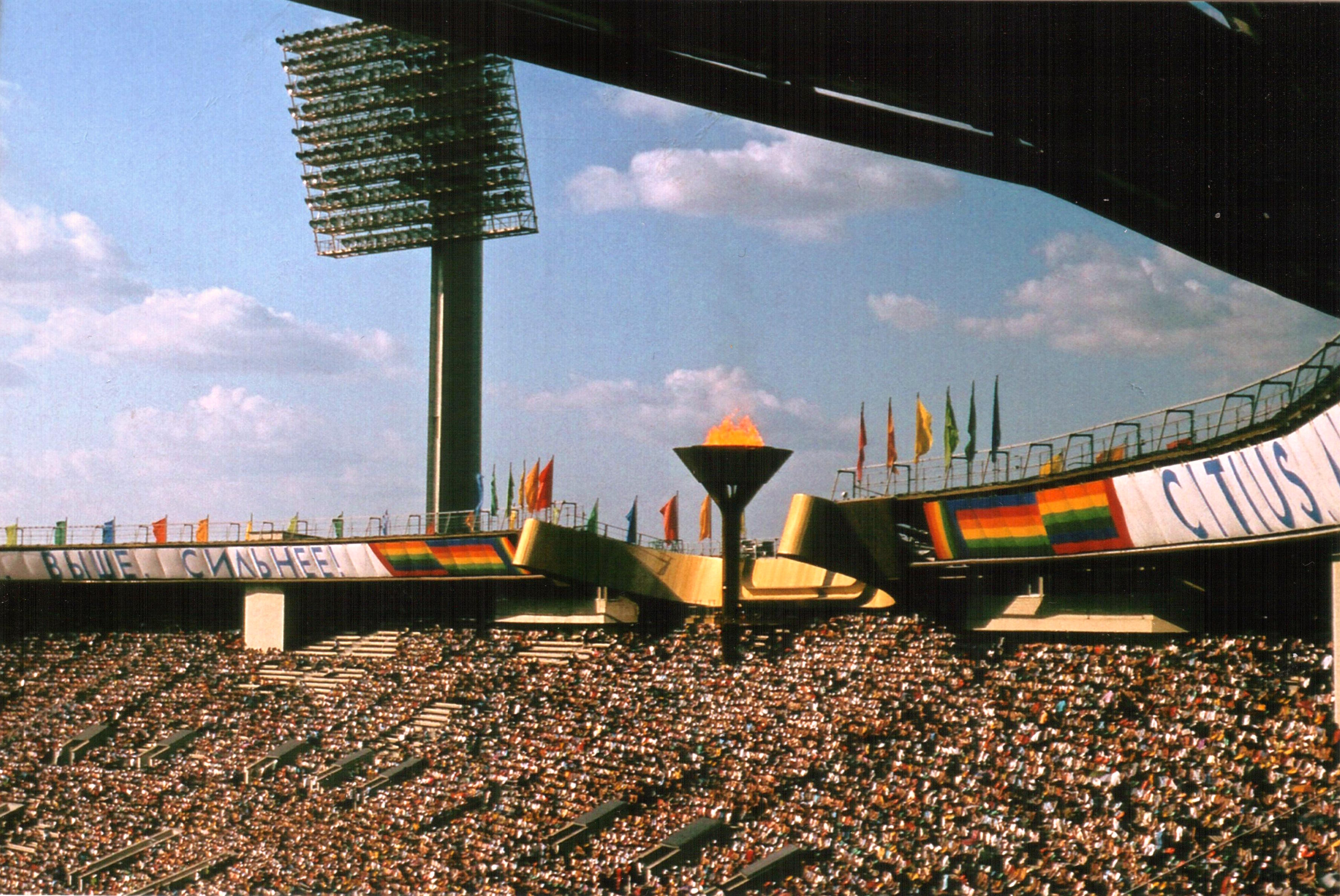 Moscow Olympic Games. Football, final match. 2nd of August 1980. Czechoslovakia - GDR. I travelled with a Hungarian group of fans, from Budapest, Hungary. Published under Creative Commons in the Metapolisz DVD line. ©© Published under Creative Commons in the Metapolisz DVD line. All of the photos and vids in the Metapolisz DVD line are under Creative Commons and can be used even for commercial – for profit – purposes. Recommended Citation Derzsi Elekes Andor: Metapolisz DVD line ©© Megjelent Creative Commons alatt a Metapolisz sorozatban. A Metapolisz sorozat valamennyi képe és filmje Creative Commons alatti valamint kereskedelmi - for profit - célra is felhasználható. Ajánlott hivatkozás: Derzsi Elekes Andor: Metapolisz DVD line